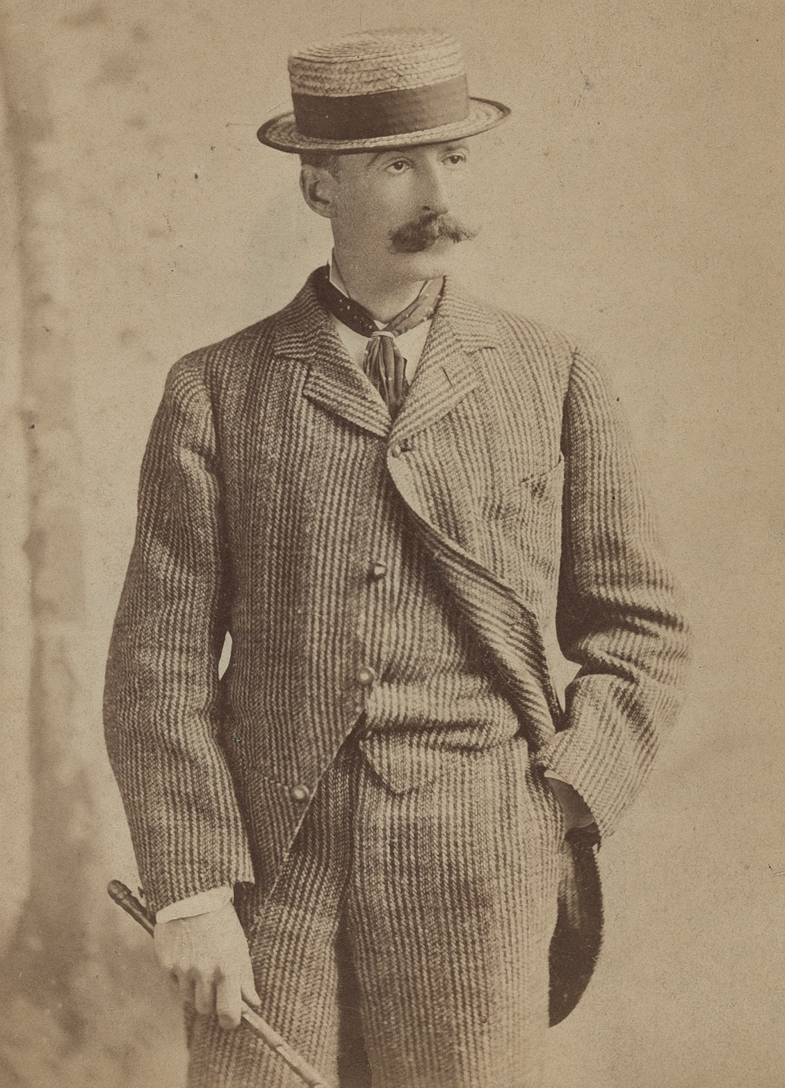 Winslow Homer, 19th century photograph